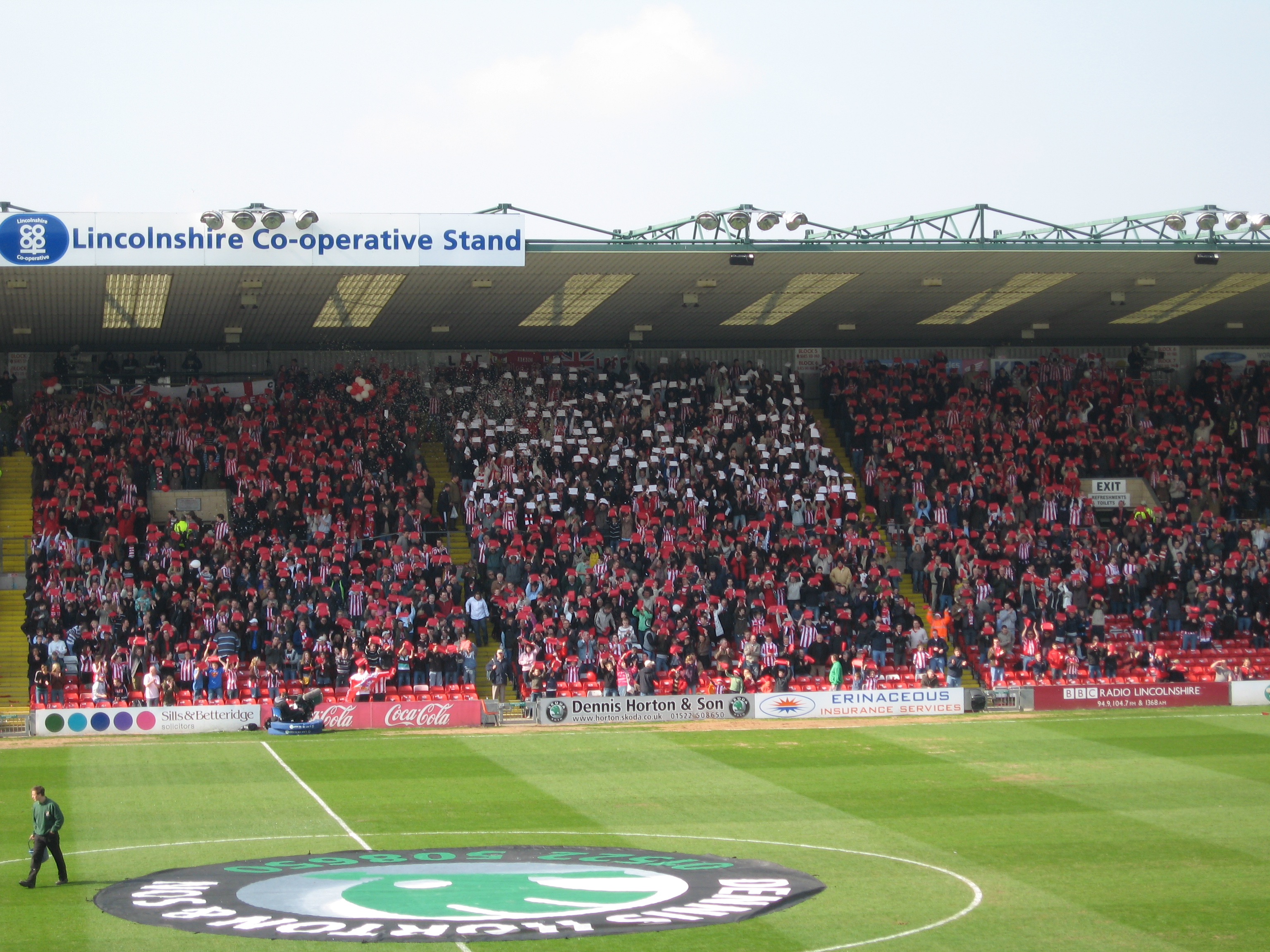 Lincoln City fans do a tifo display.